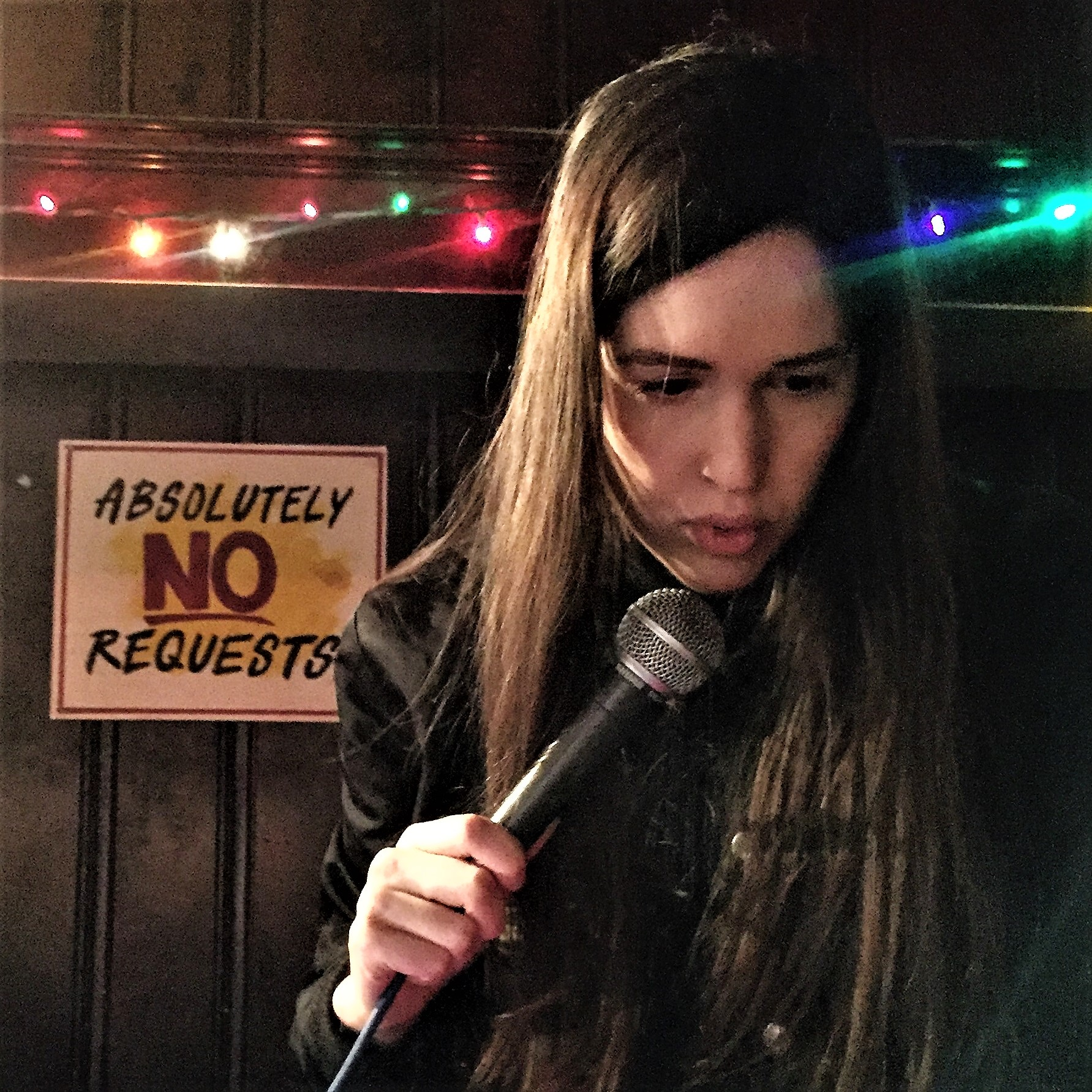 Marie Davidson live performance in Philadelphia in 2017